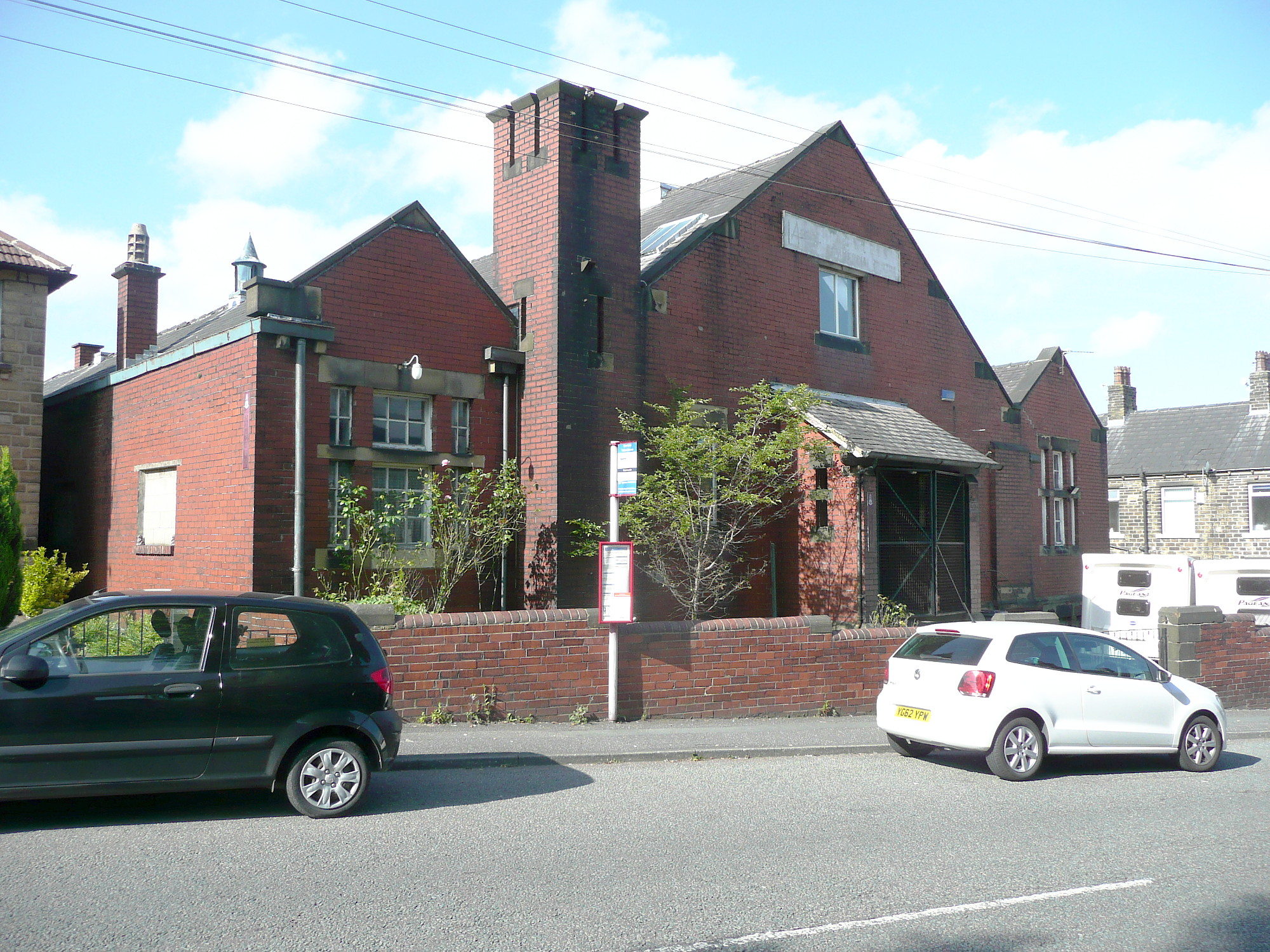 Former drill hall, Scar Lane, Golcar